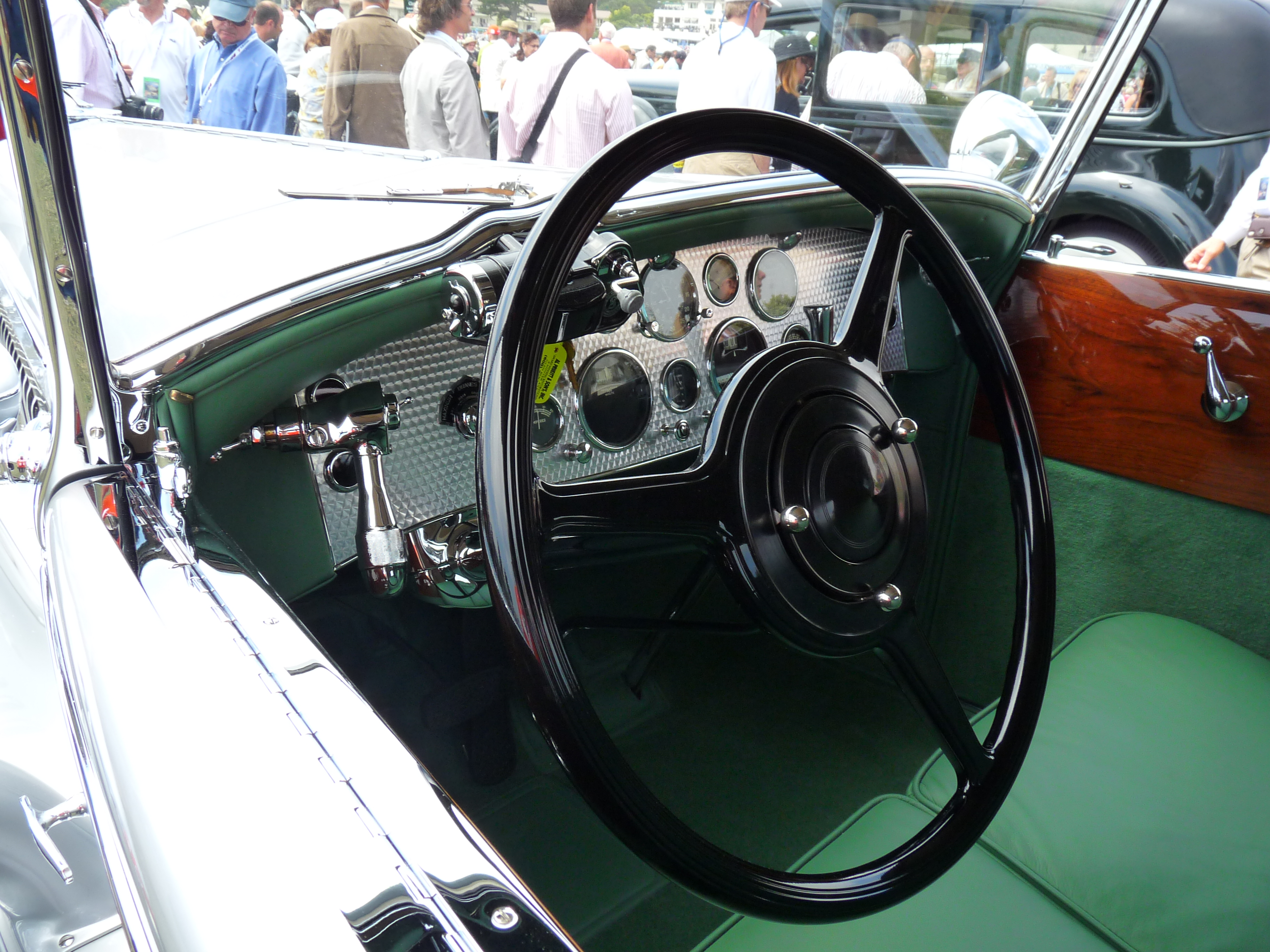 1929 Duesenberg J Murphy Convertible Coupe